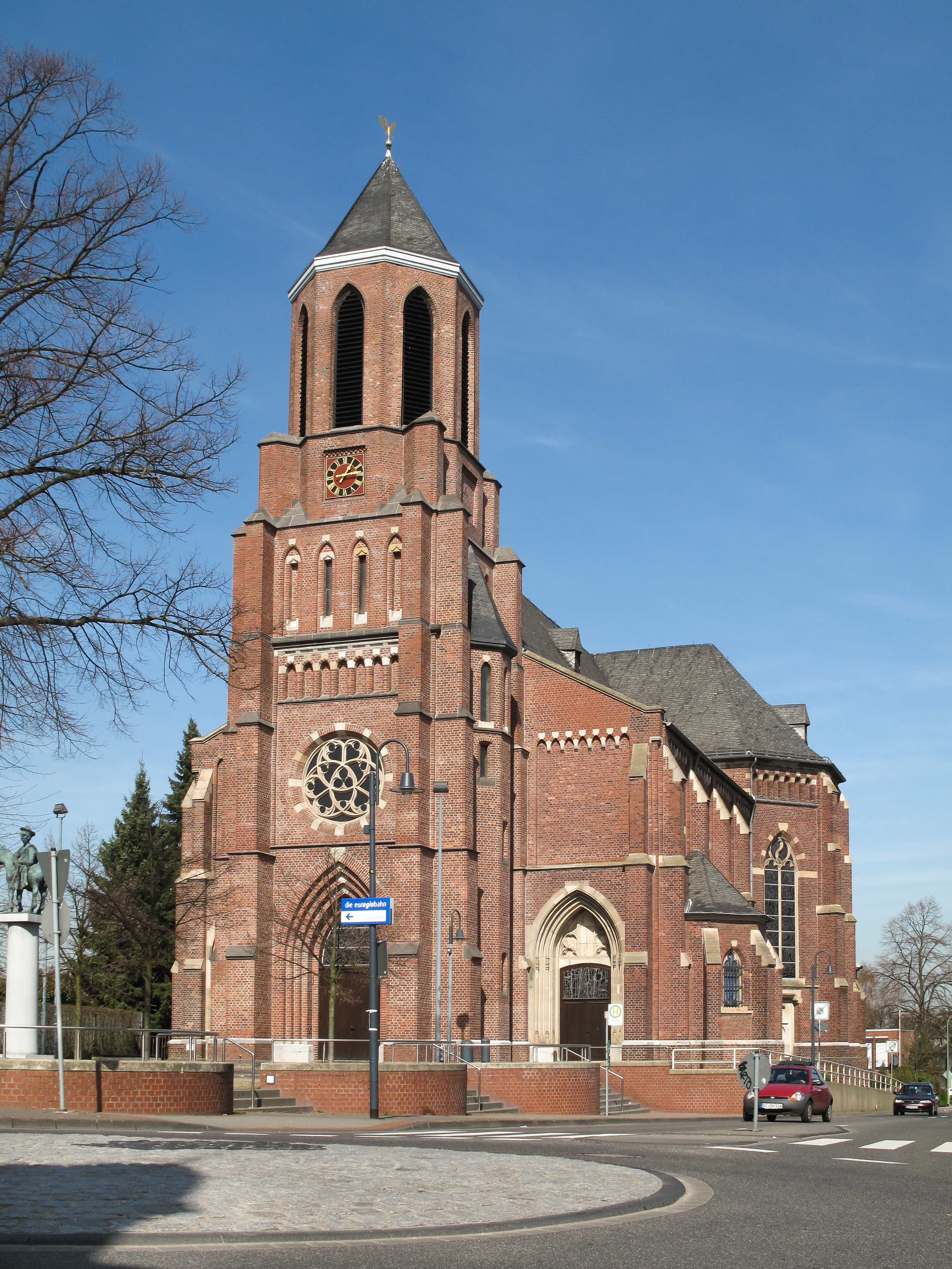 Langerwehe, church